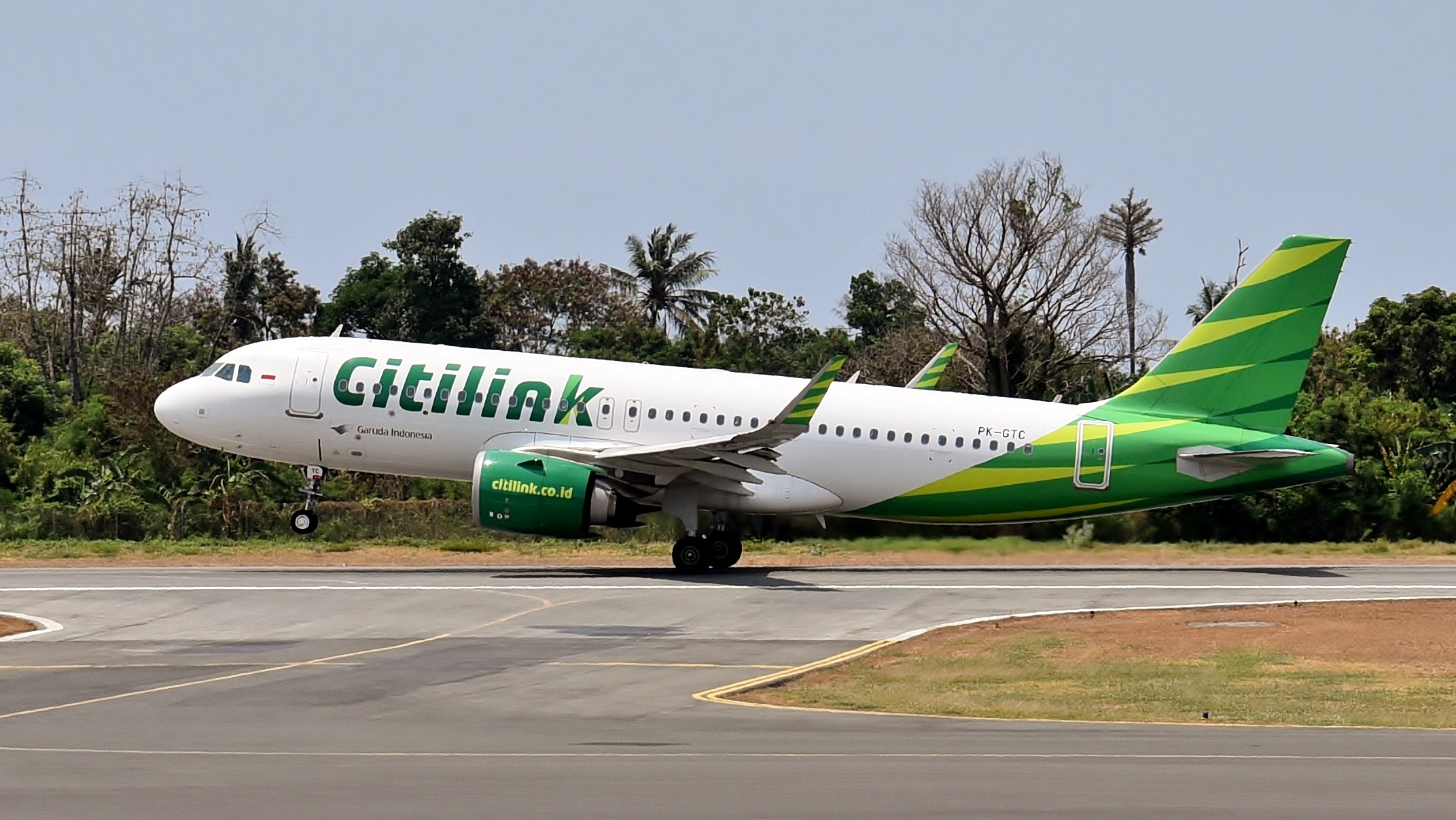 Citilink Airbus A320neo PK-GTC taking off from Presidente Nicolau Lobato International Airport, Dili, East Timor